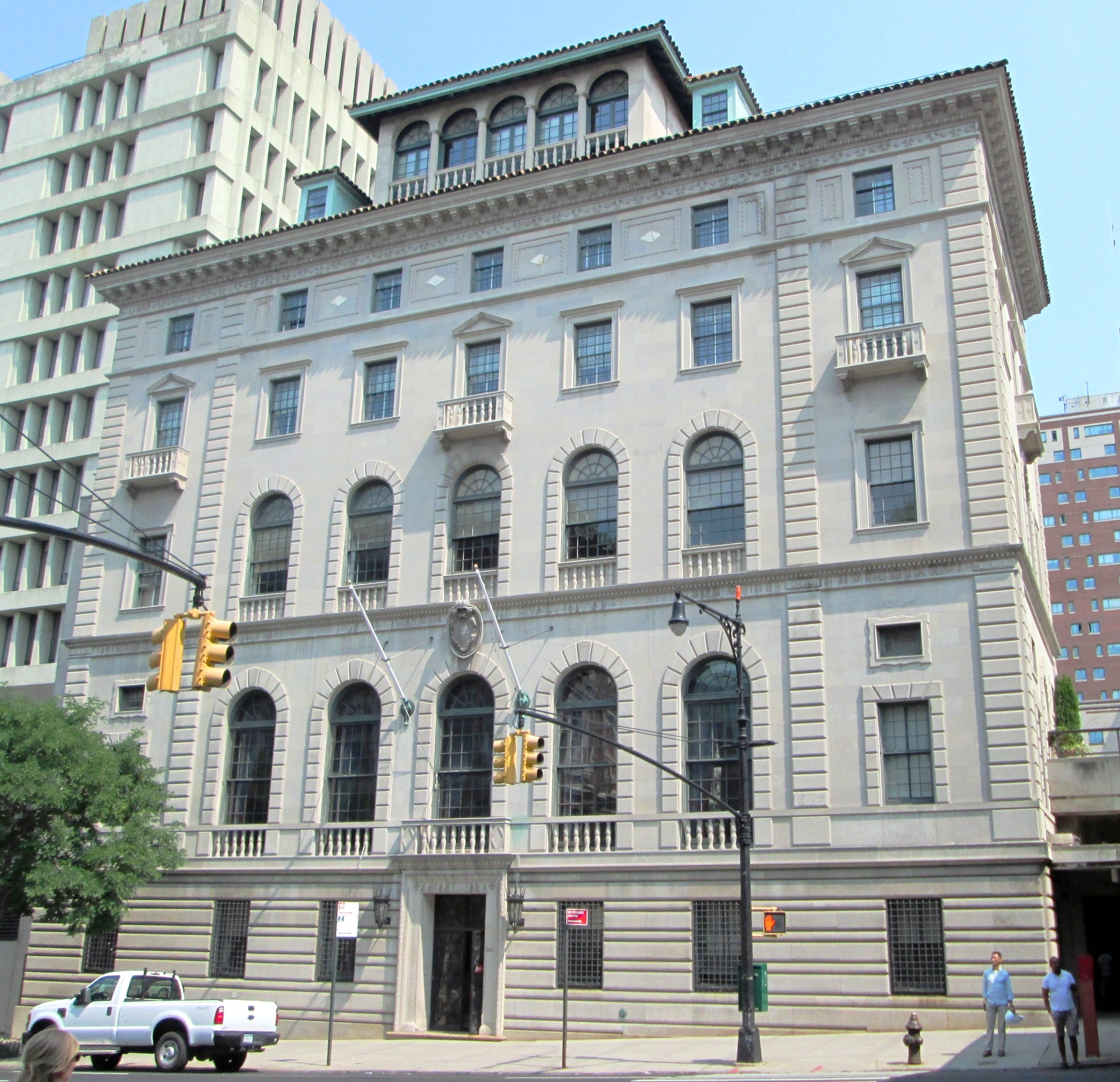 Casa Italiana of Columbia University, located at 1151-1161 Amsterdam Avenue between West 116th and 118th Streets in the Morningside Heights neighborhood of Manhattan, New York City, houses Italian Academy for Advanced Studies. It was built in 1926-27 and was designed by William Kendall of McKim, Mead & White in the Renaissance palazzo style. The building was restored, and the east facade completed, in 1996 by Buttrick, White & Burtis with Italo Rota. (Source: AIA Guide to NYC (5th ed.))